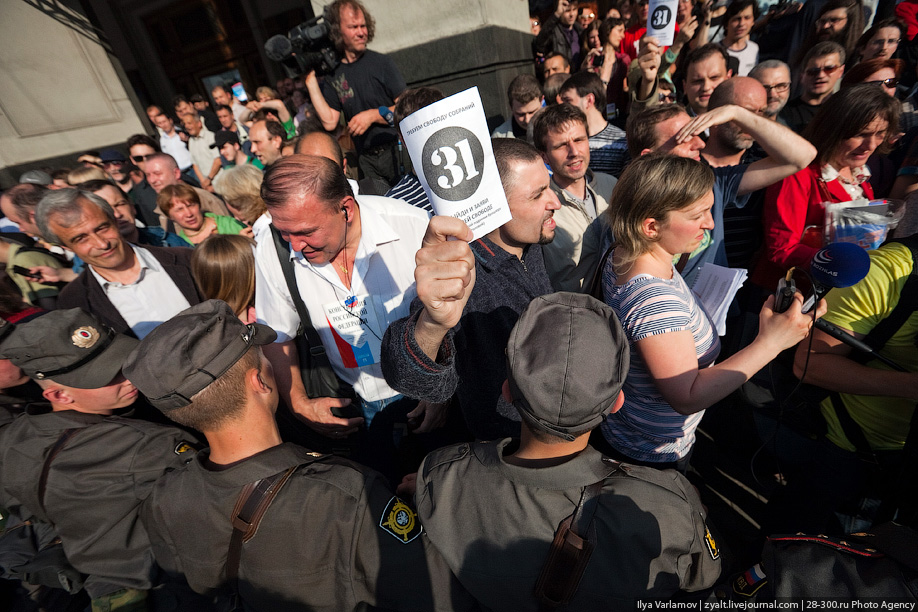 Protest action in defense of Article 31 (Freedom of assembly) of the Russian Constitution. Moscow, May 31, 2010